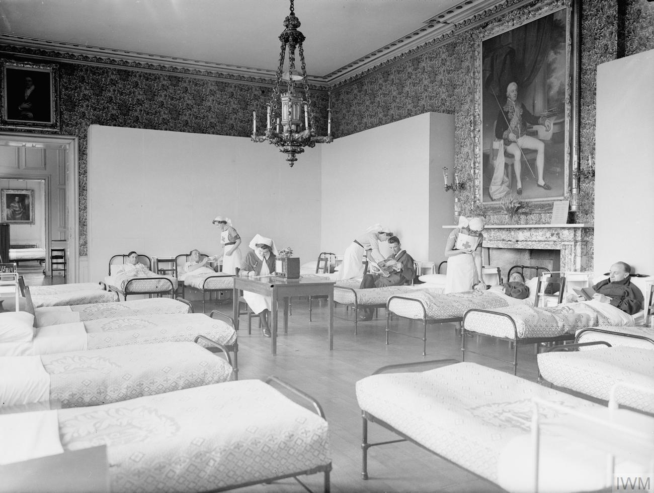 Royal Naval Auxiliary Hospital, Cholmondeley Castle. 7-14 July 1942. One of the wards at the Royal Naval Auxiliary Hospital Cholmondeley Castle, Cheshire. Cholmondeley Castle was one of several naval hospitals especially set up to treat patients with severe or chronic psychiatric illness.